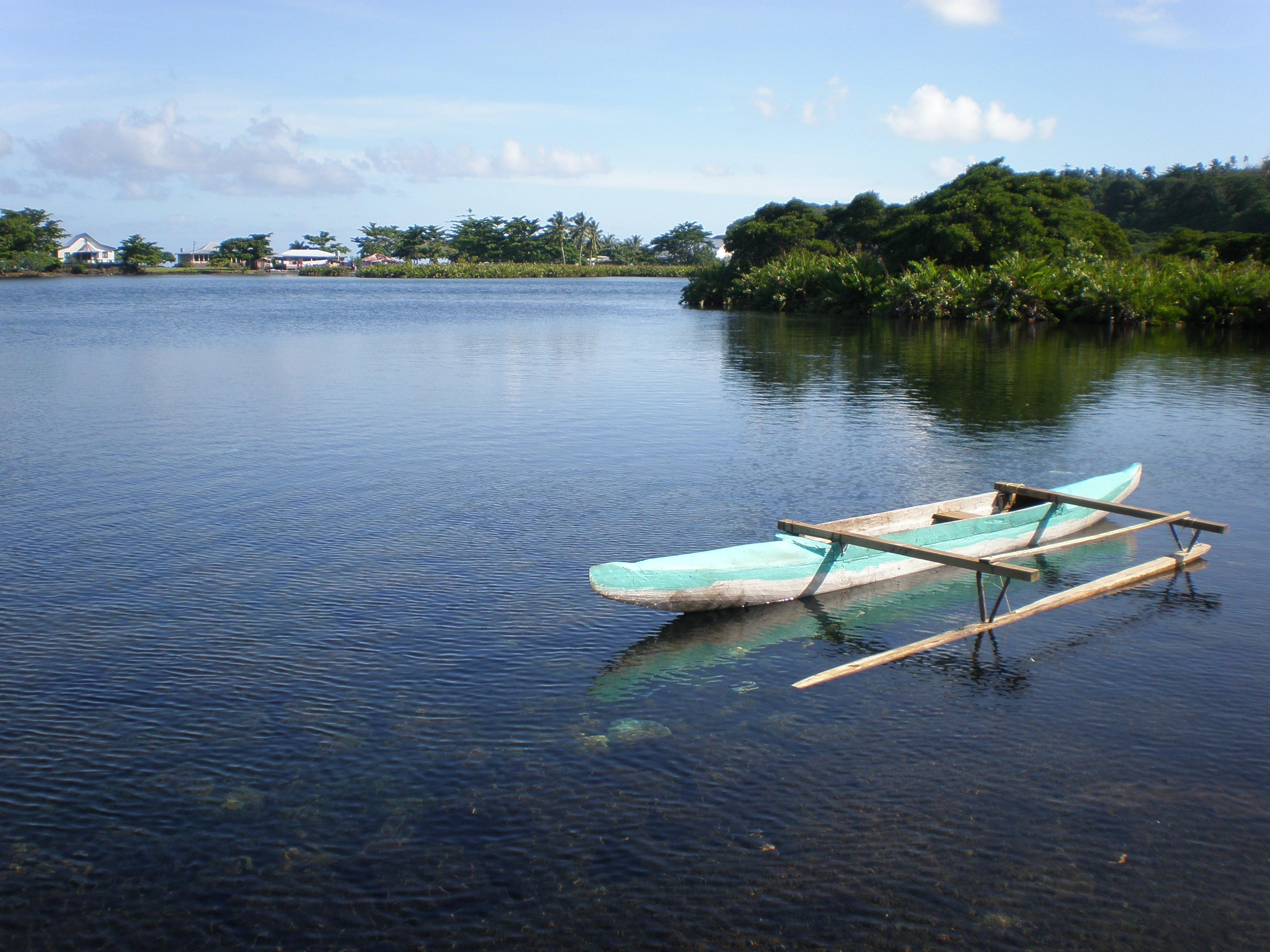 View Lefagaoali'i village from Safune, Savai'i, Samoa